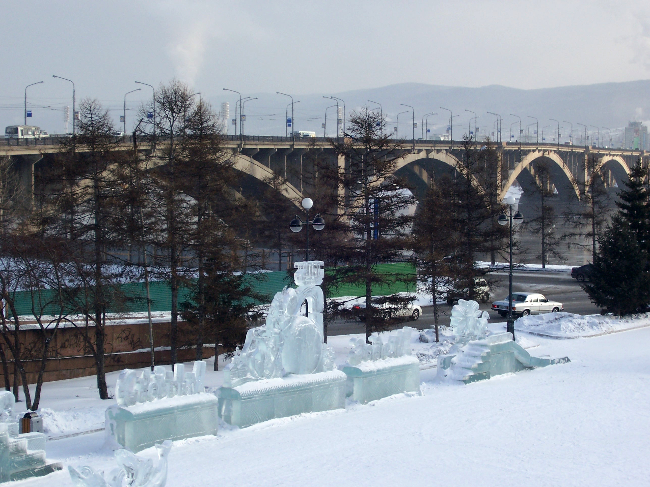 Bridge over Yenisei in Krasnoyarsk